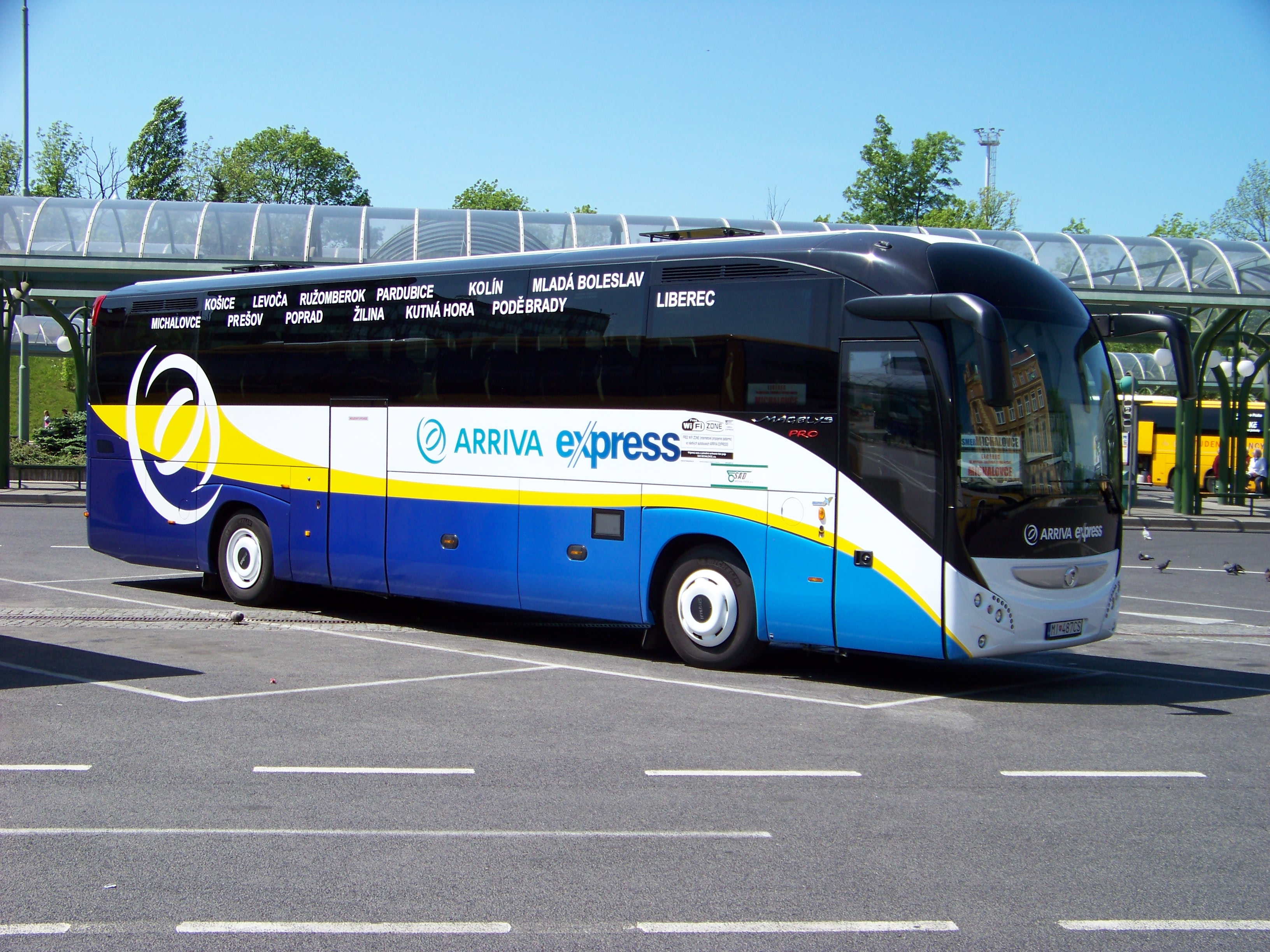 Liberec-Jeřáb, Liberec District, Liberec Region, the Czech Republic. A bus station, Irisbus Magelys of SAD Michalovce.